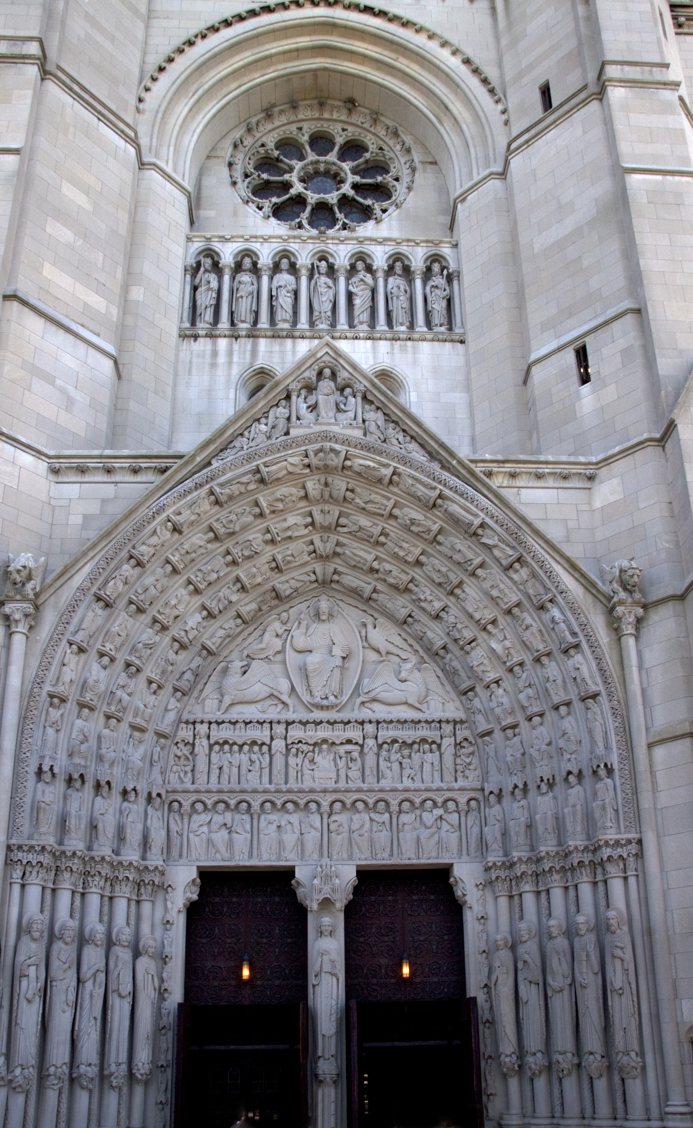 Riverside Church doorway